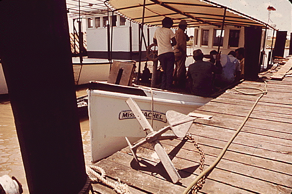 OYSTER BOAT CAPTAINS AT POINTE A LA HACHE MAP OUT NEW NAVIGATIONAL CHARTS OF THE AREA WITH OFFICIAL FROM THE U.S DEPARTMENT OF THE INTERIOR. OYSTERMEN WERE IDLE AT THE TIME BECAUSE OF A BAN ON OYSTER FISHING. RELEASE OF MISSISSIPPI FLOOD WATERS HAD POLLUTED THE OYSTERBEDS, 05/1973